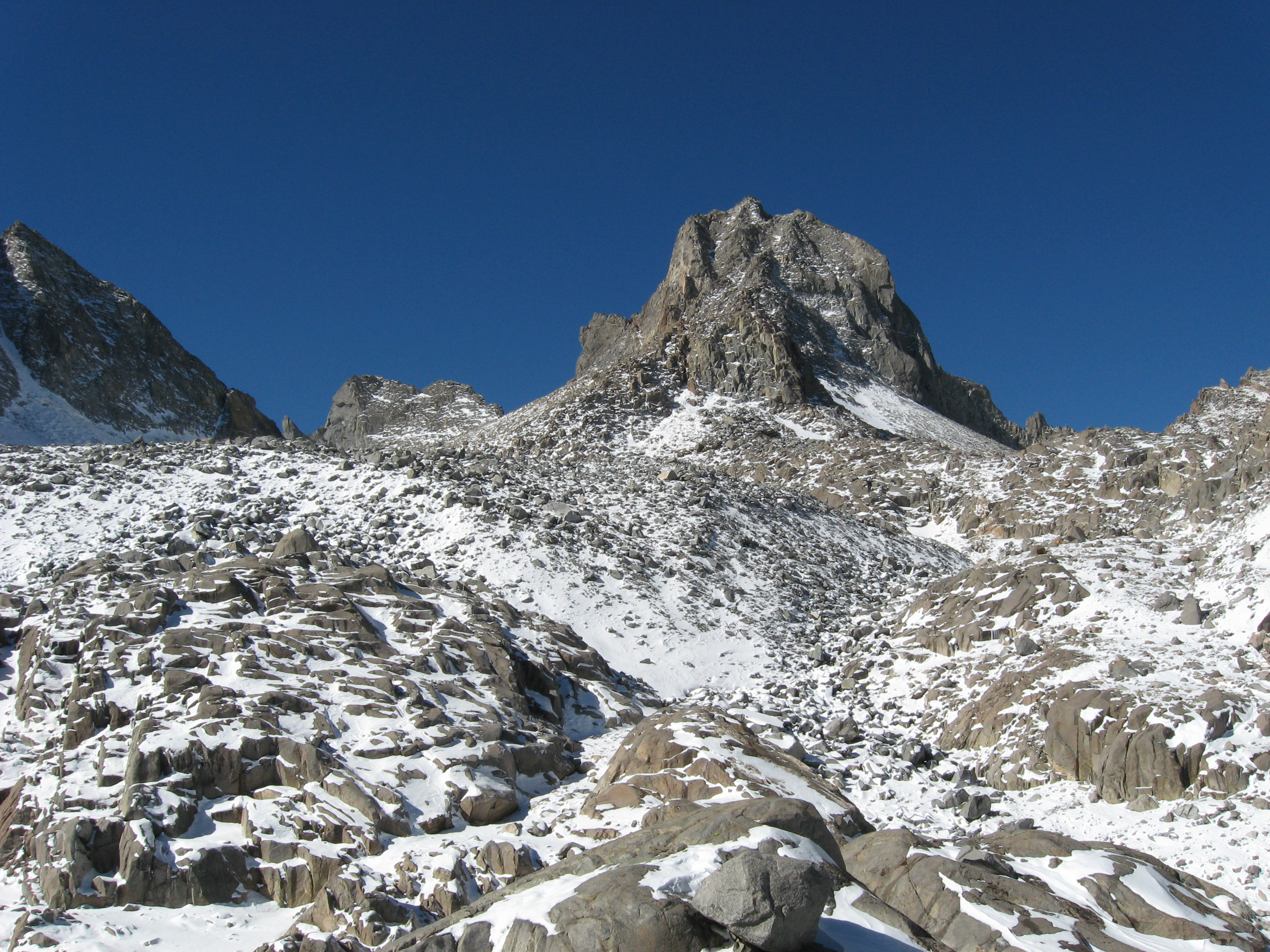 Mount Winchell with a fresh coat of snow. Looking up the east arete.